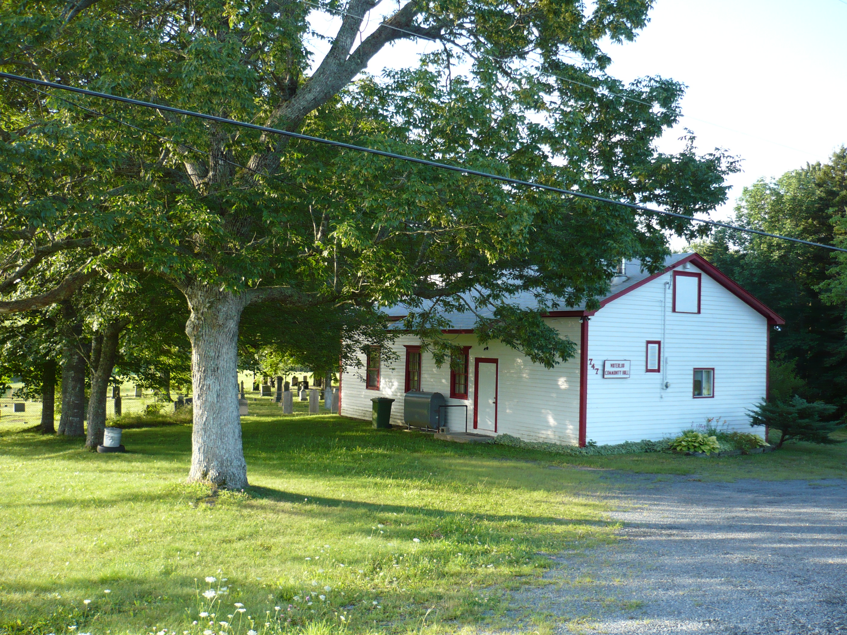 A view of the Waterloo Community Hall where it has stood for over 100 years. The picture was taken from where the photographer stood when taking the St. Michael's church picture in this article.